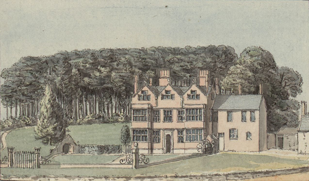 An image from a set of 8 extra-illustrated volumes of A tour in Wales by Thomas Pennant (1726-1798) that chronicle the three journeys he made through Wales between 1773 and 1776. These volumes are unique because they were compiled for Pennant's own library at Downing. This edition was produced in 1781. The volumes include a number of original drawings by Moses Griffiths, Ingleby and other well known artists of the period. Thomas Pennant (1726-1798)